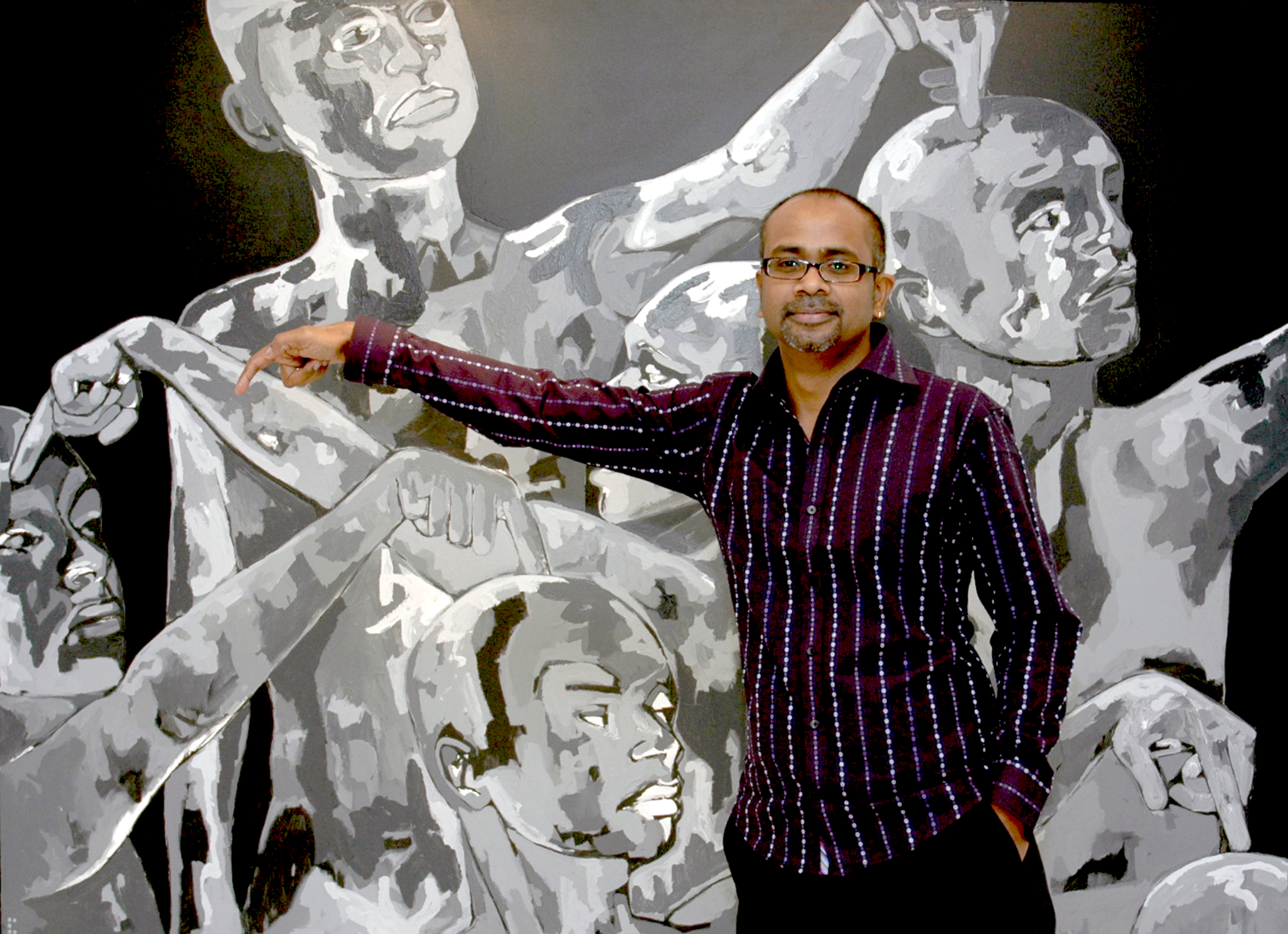 Photo of Ebenezer Sunder Singh, with YOU - acrylic on canvas, May 2006.jpg